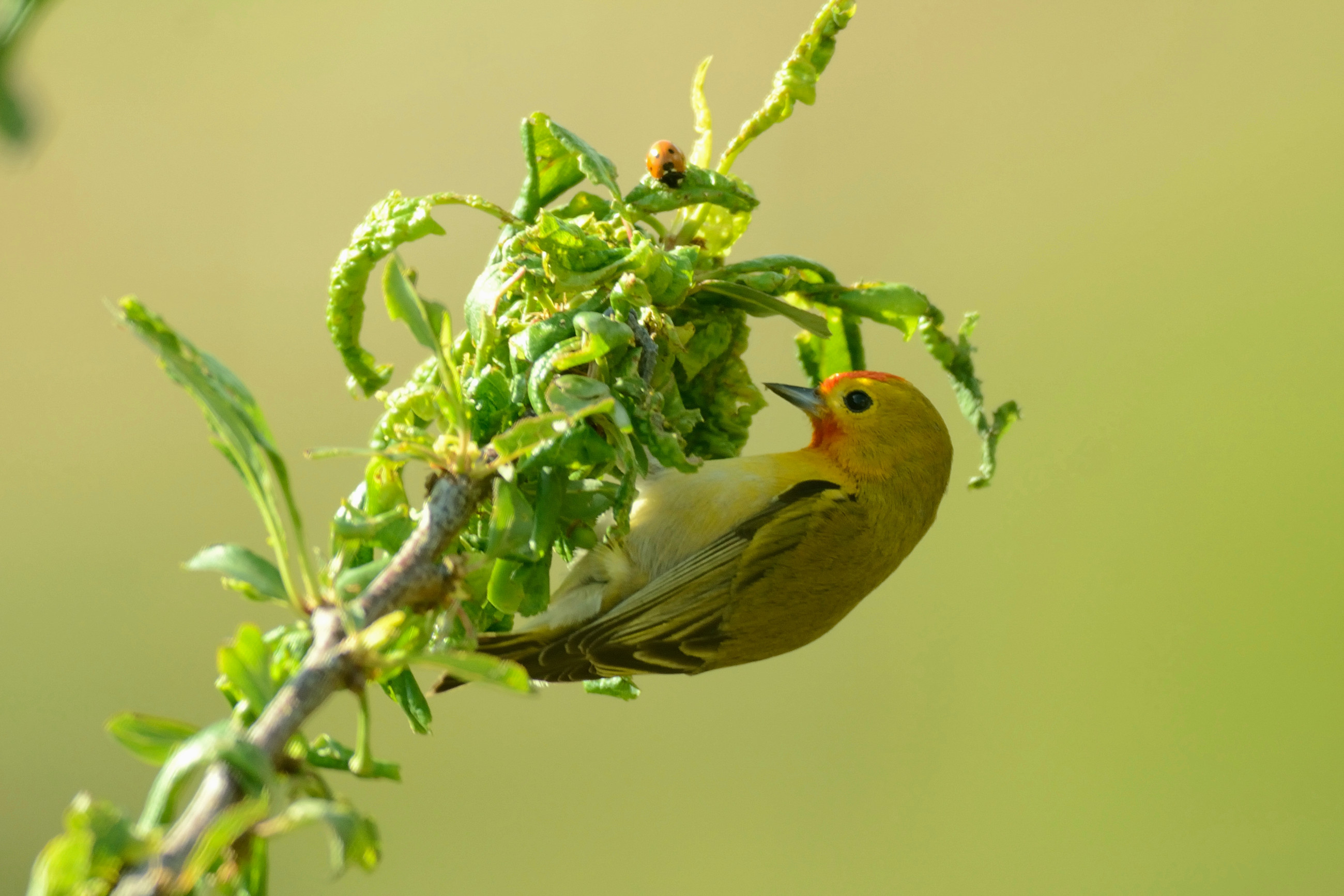 Tit was captured during morning hours near water stream at Patnitop, a hilly town of J&K